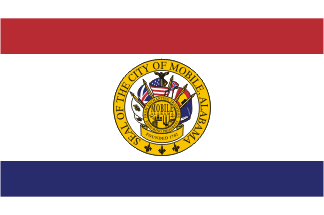 The official city flag of Mobile, Alabama, created in December 1968 and modified in August 2000.